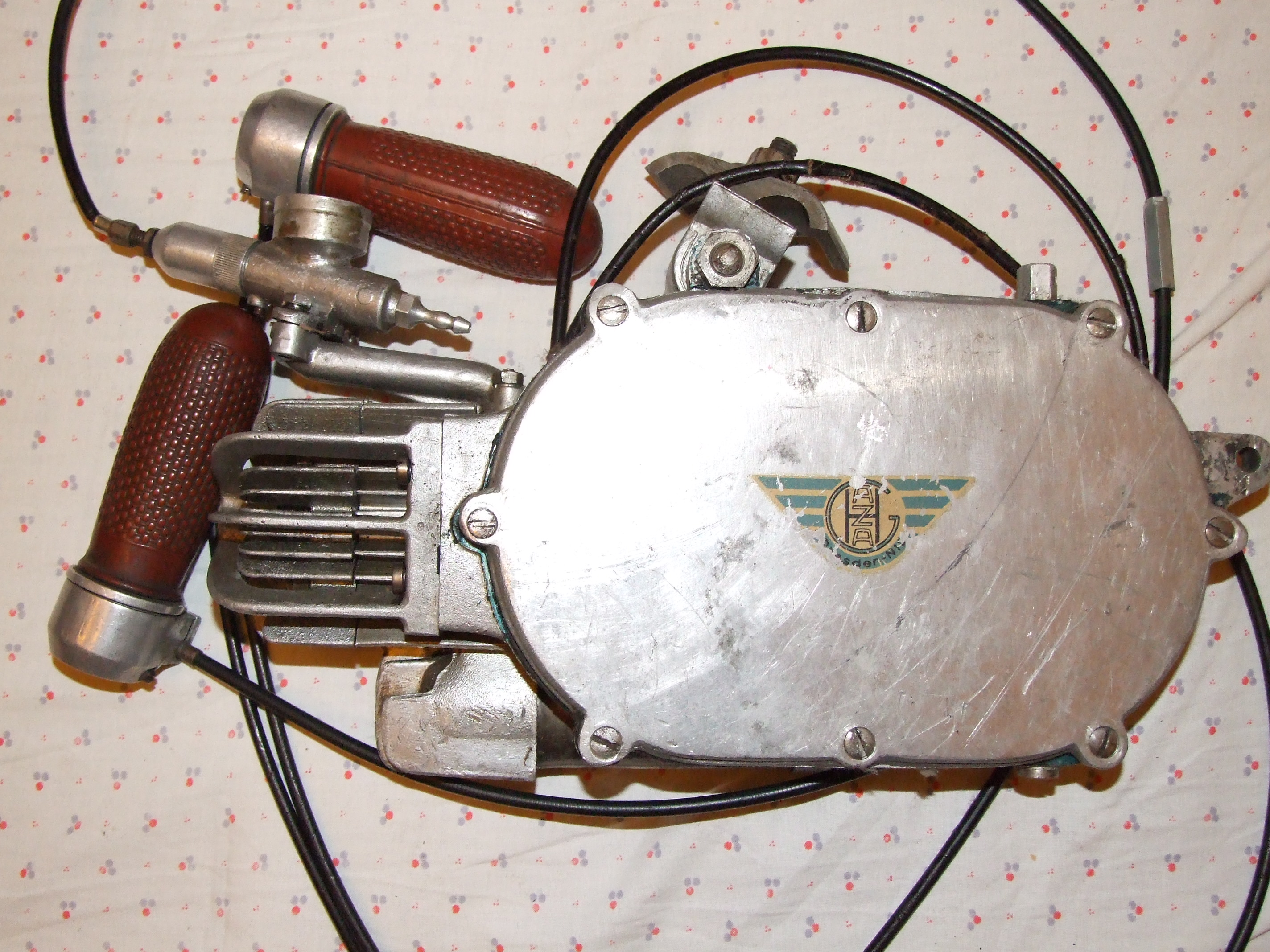 HAZA was a small motor for bikes. produced in the 1950th in Dresden. Interestingly, the working-princip was like the Lohmann-Motor. Owner of this motor is Werner Wendrock (Germany)